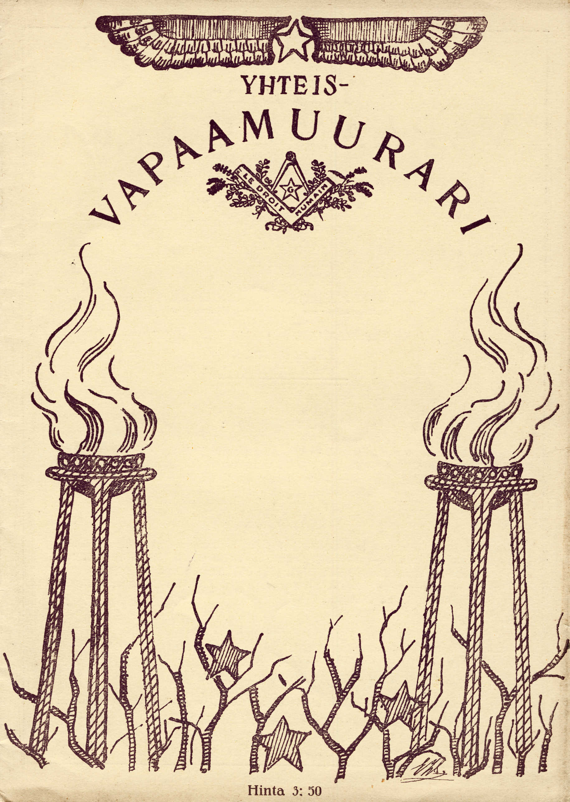 Cover of Yhteis-Vapaamuurari-Magazine, finnish branch of the co-masonic order "Le Droit Humain"